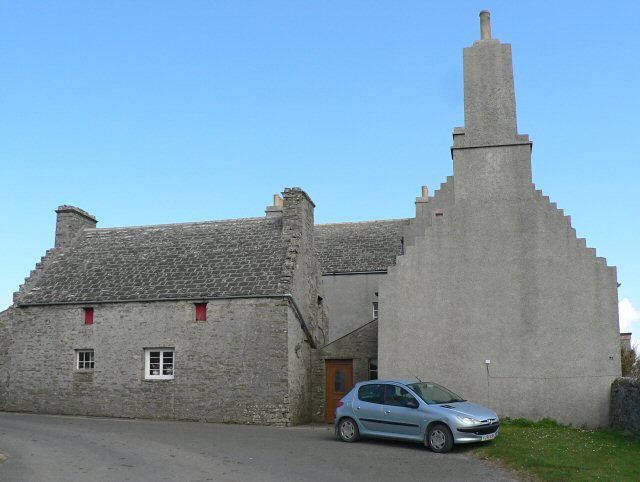 Holland House. This is the largest house on Papa Westray, and has many outbuildings.